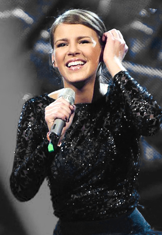 By Fotodiena.lt / Edvardas Blaževič. Vilija Matačiūnaitė, winner in the Eurovision 2014 Finals Lithuania singing her winning song Attention. March 1, 2014.